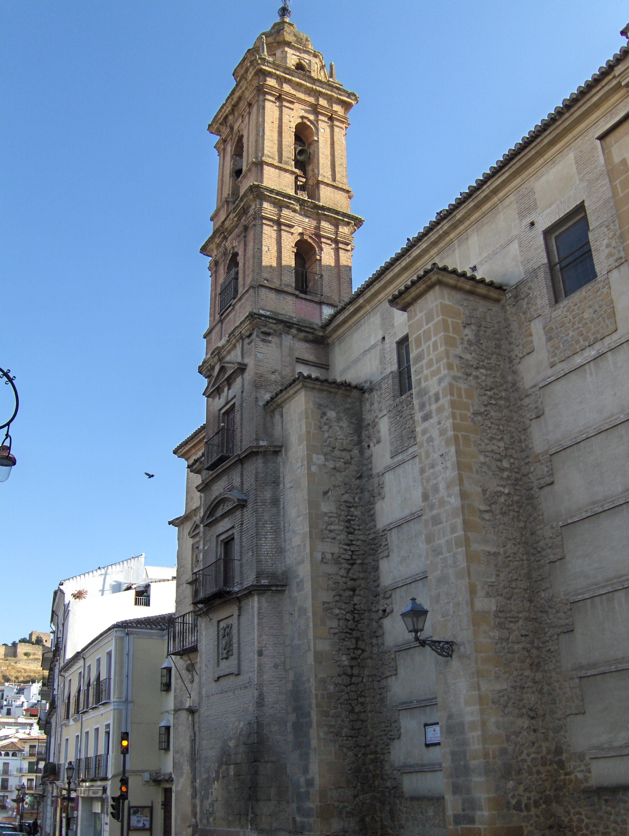 Church of San Agustín, Antequera, Spain.